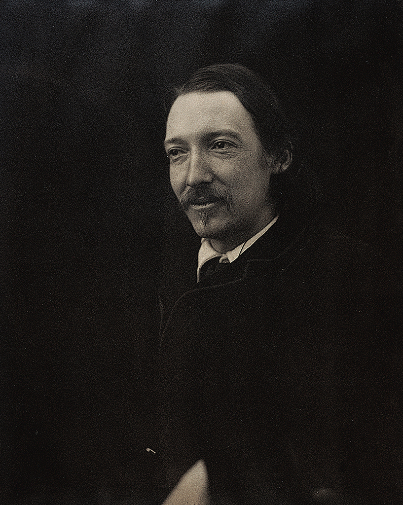 Accession no. PGP 114.1 Medium Platinum print Size 36.90 x 29.20 cm Credit Purchased 1986 For more information please select here.